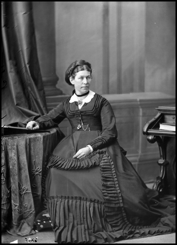 Maria Hinton, wife of William Pittman Lett, 1871